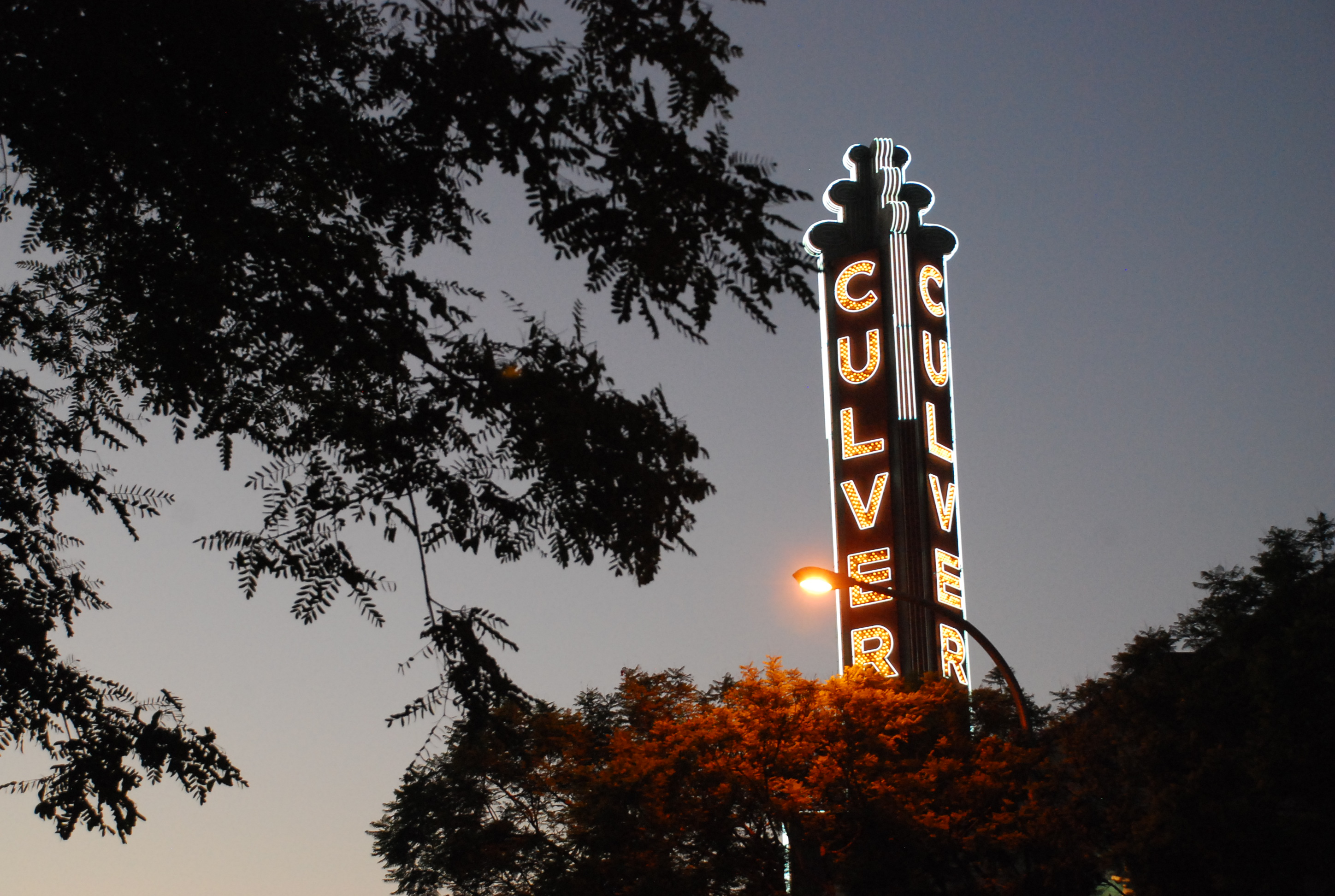 Culver Theater signage at sunset